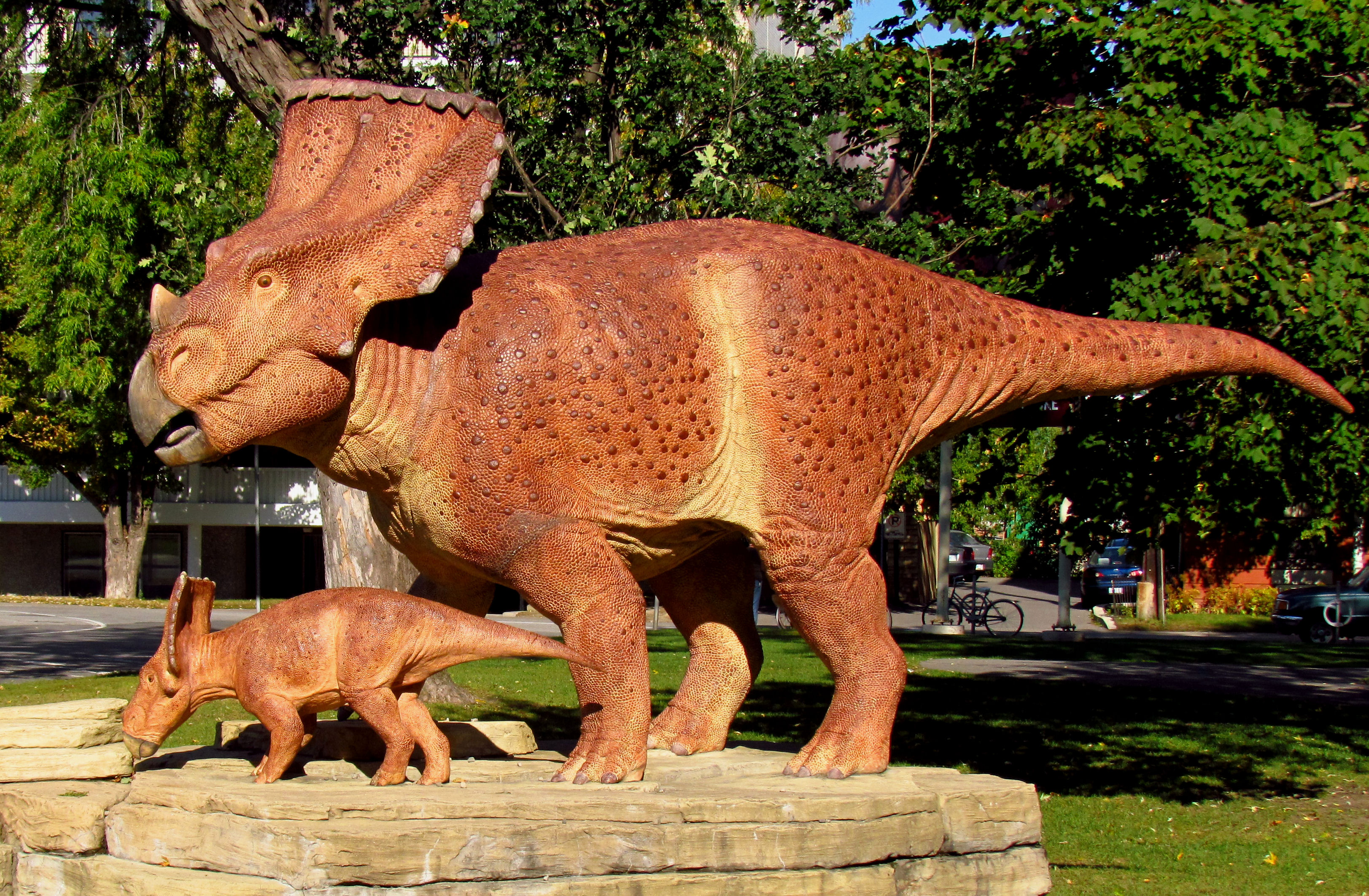 Vagaceratops irvinensis, adult and young, outside Canadian Museum of Nature, Ottawa, Ontario, Canada (name on plaque is Chasmosaurus irvinensis, its original name)